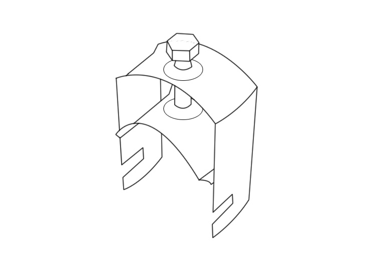 SONAP cable clamp used for fixing cables to cable ladders